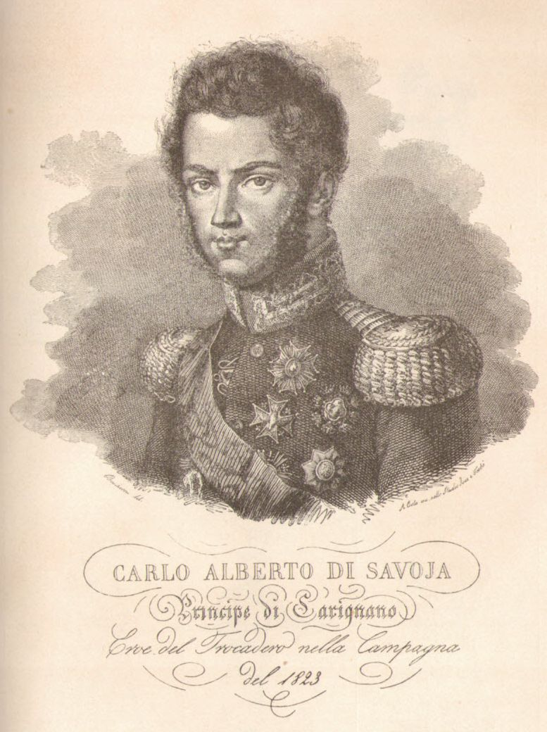 Carlo Alberto of Savoy as a hero of the Battle of Trocadero (1823-08-31).